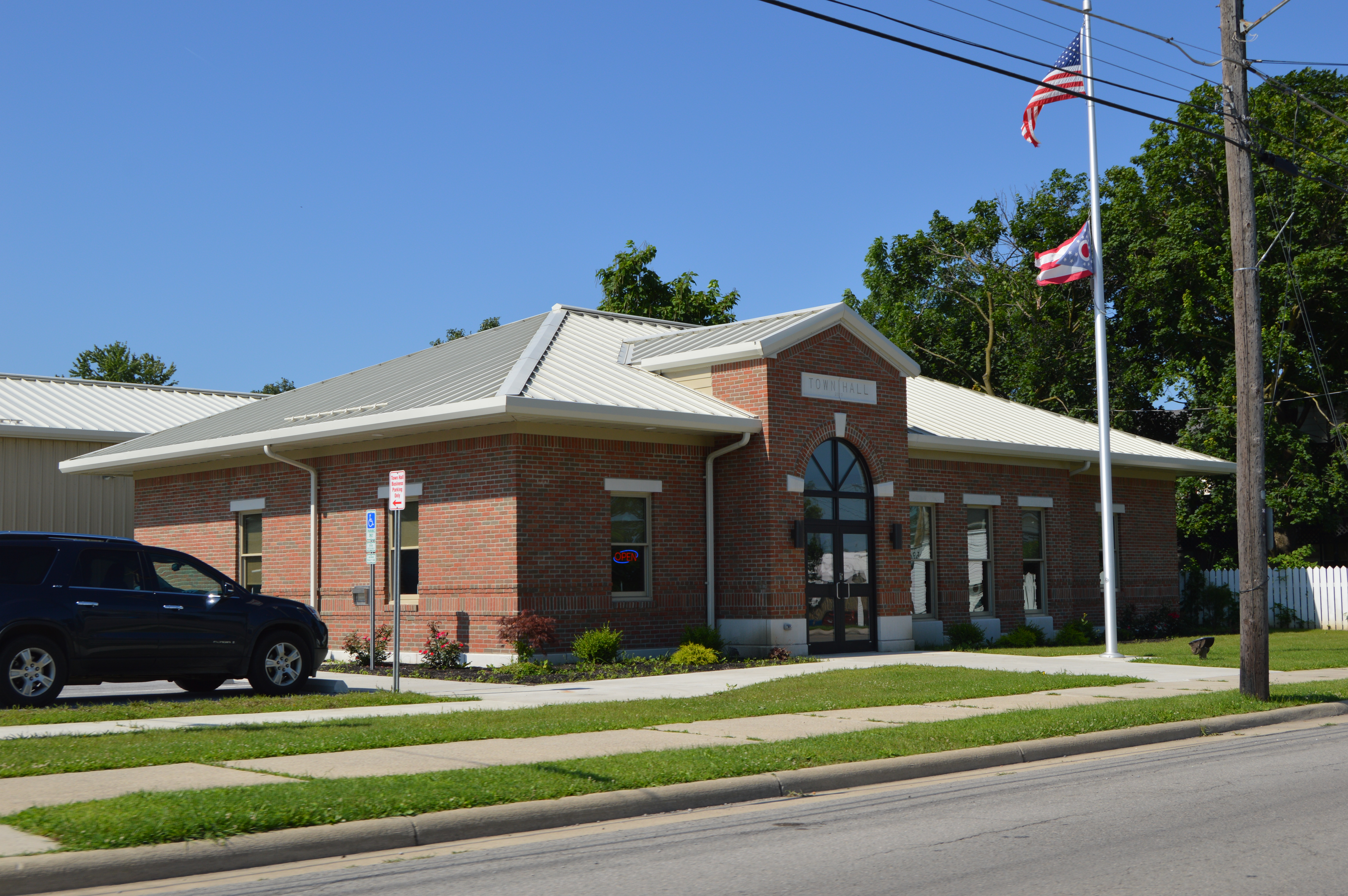 Front and eastern side of the Beaverdam village hall, located at 101 W. Main Street (State Route 696) in Beaverdam, Ohio, United States.